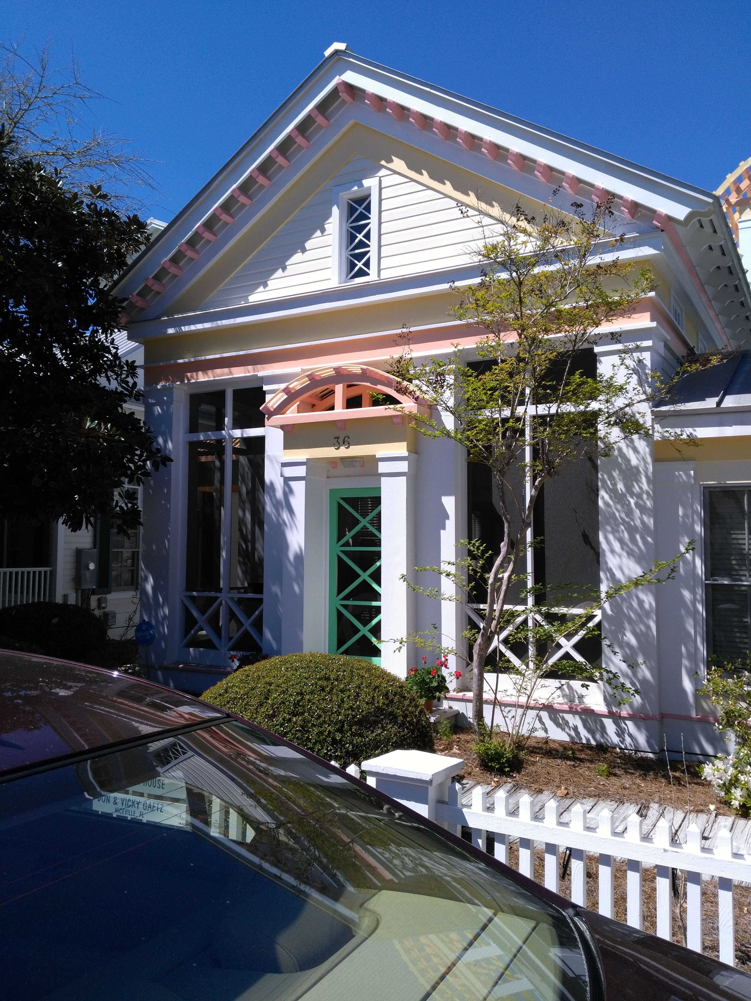 The house is a picture taken in Seaside, FL of the house used during filming for the Jim Carrey movie, The Truman Show.